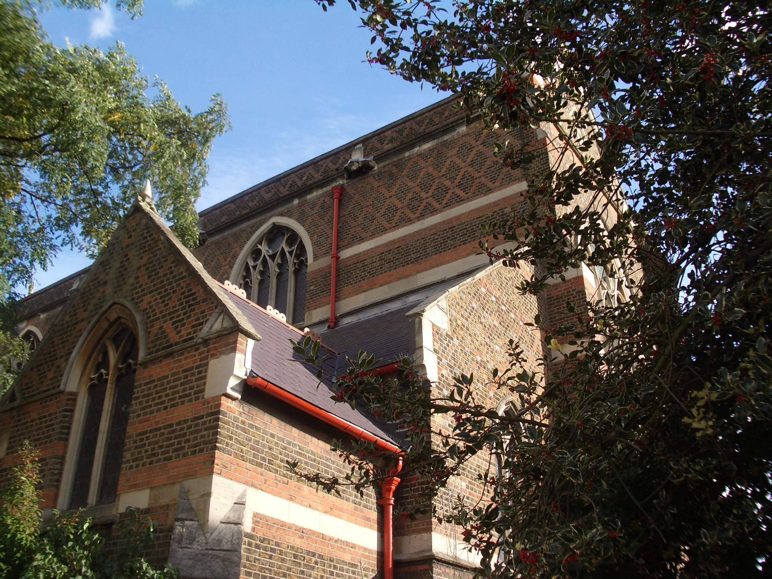 St Mary Brookfield, Dartmouth Park, Camden, London. Architect: William Butterfield.